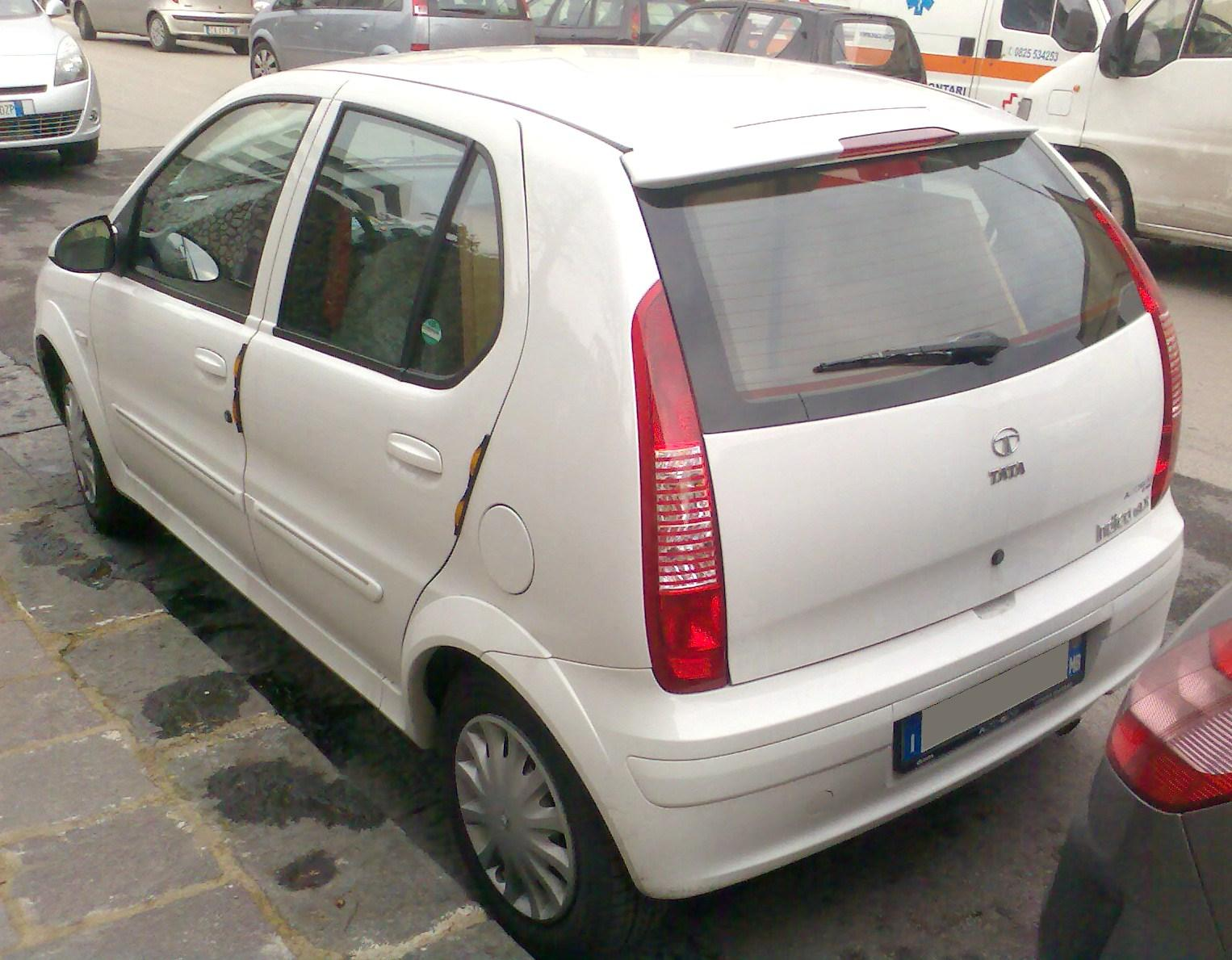 Tata Indica V2